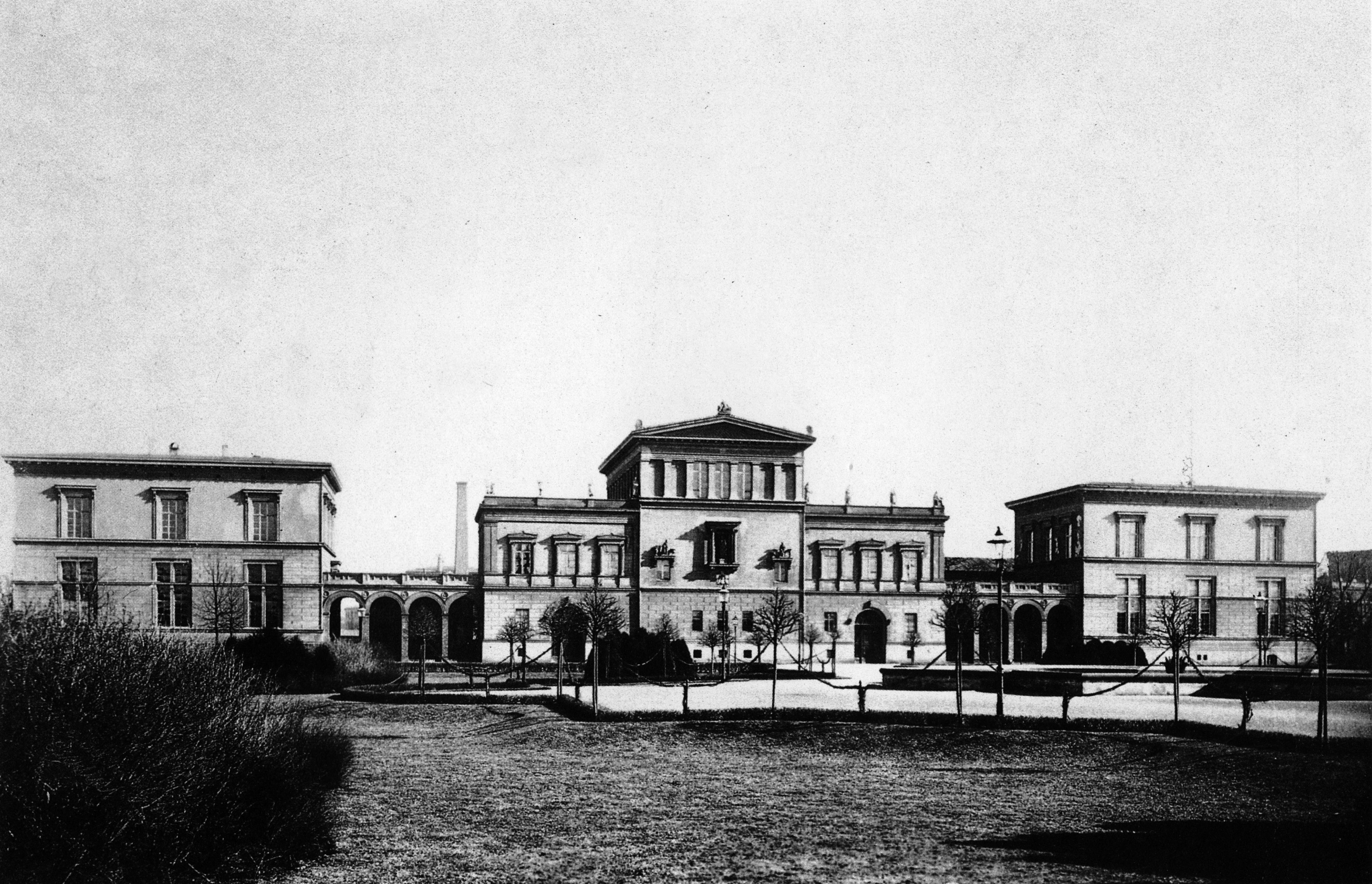 The Raczynski Palace on Königsplatz (“king's square”, now Platz der Republik), which was demolished in 1884 in favor of the Reichstag building.